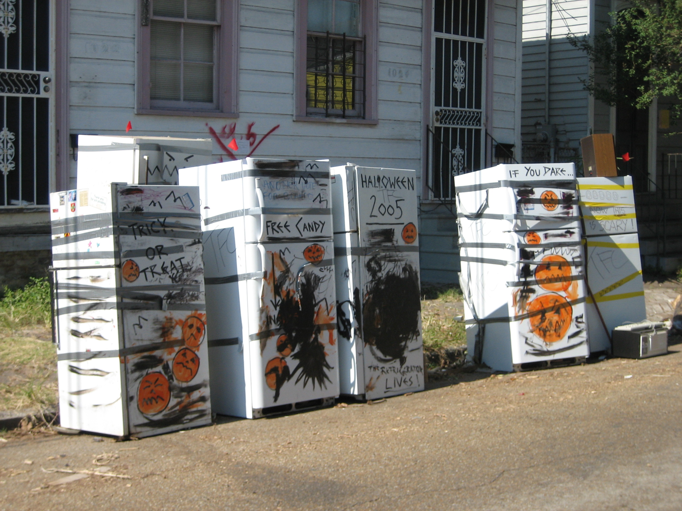 New Orleans after Hurricane Katrina: Bywater neighborhood: Digarded refrigerators decorated with pumpkins in Halloween theme